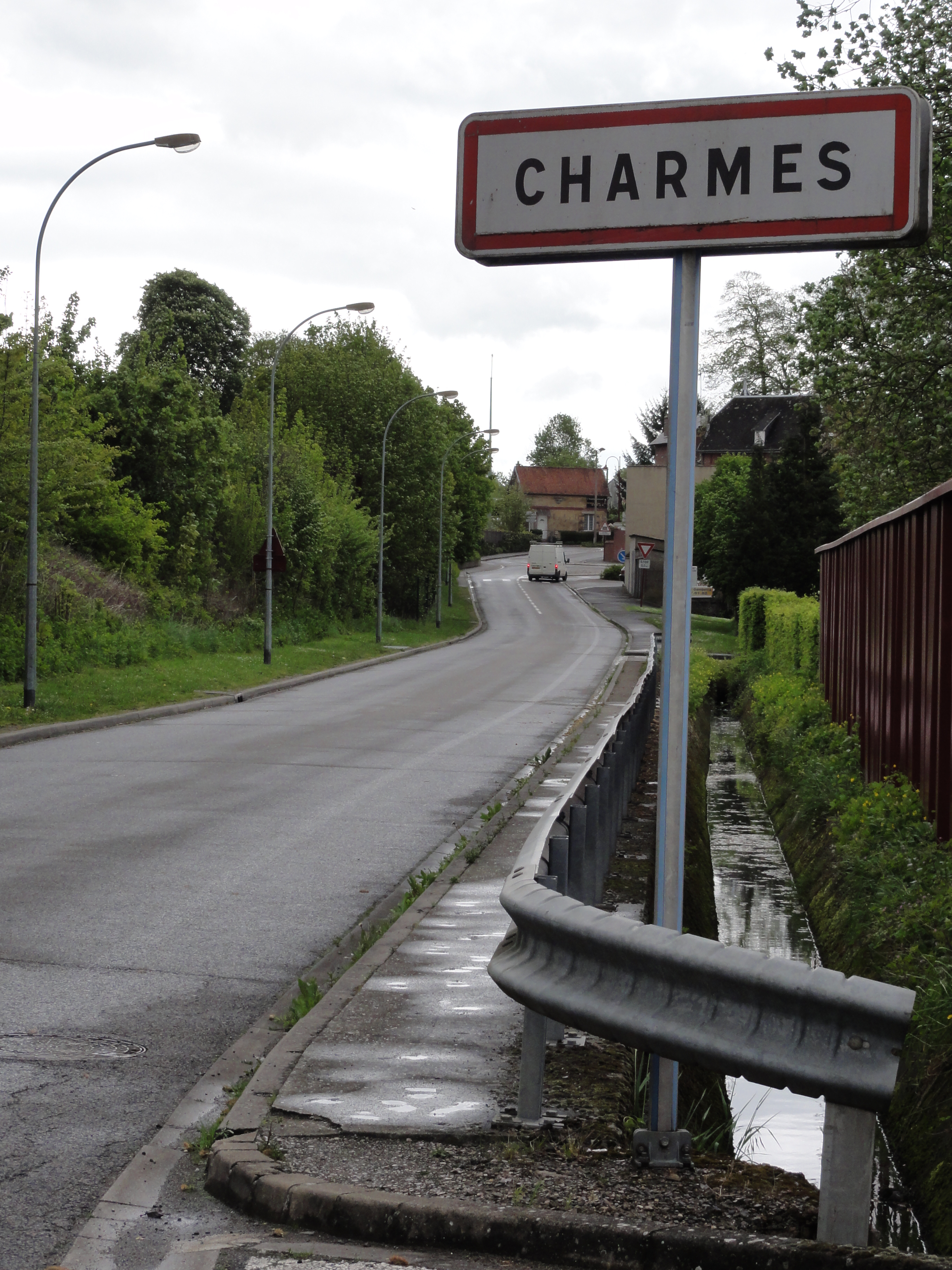 Charmes (Aisne) city limit sign